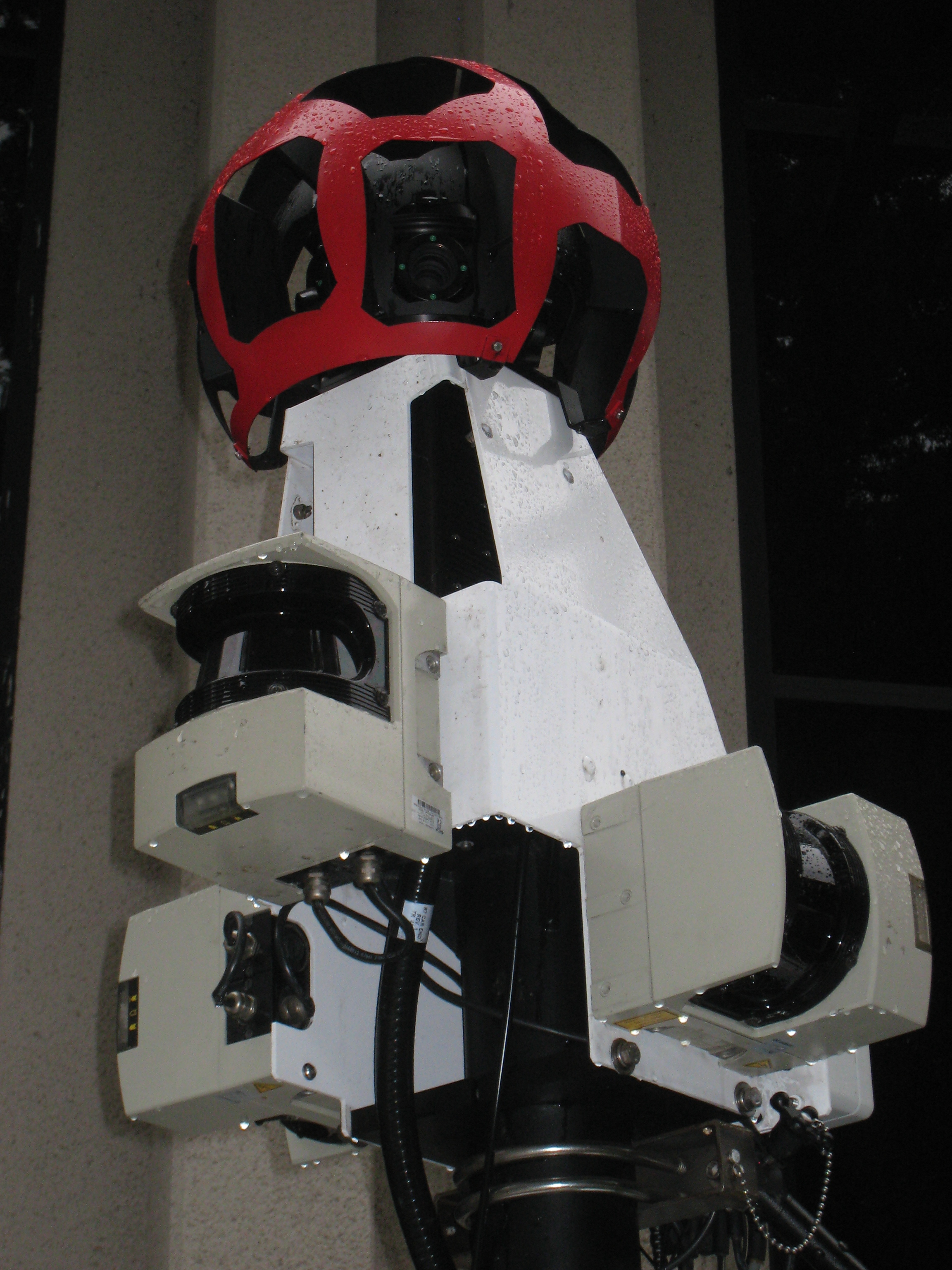 Google Stream View Camera, taken on Google Campus in Mountain View, CA, USA. Please excuse the water droplets on the camera, it was raining that day.